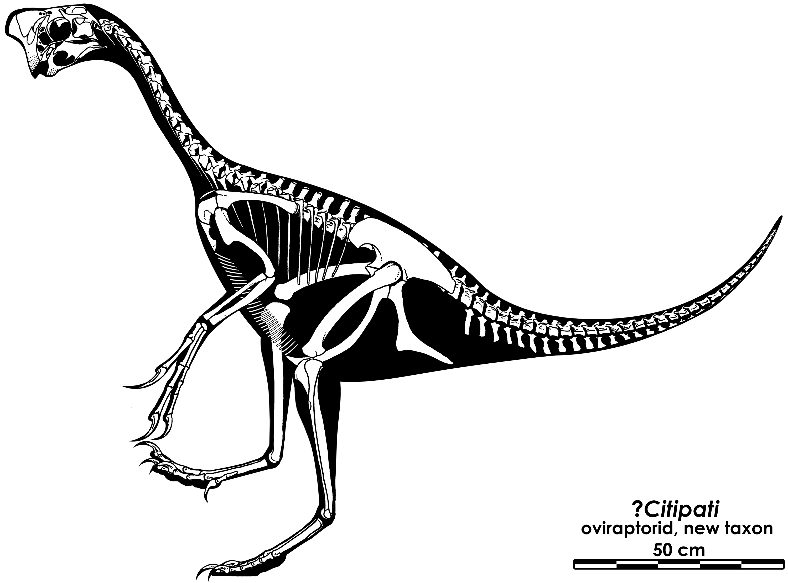 Skeletal reconstruction of the Zamyn Khondt Citipati sp..